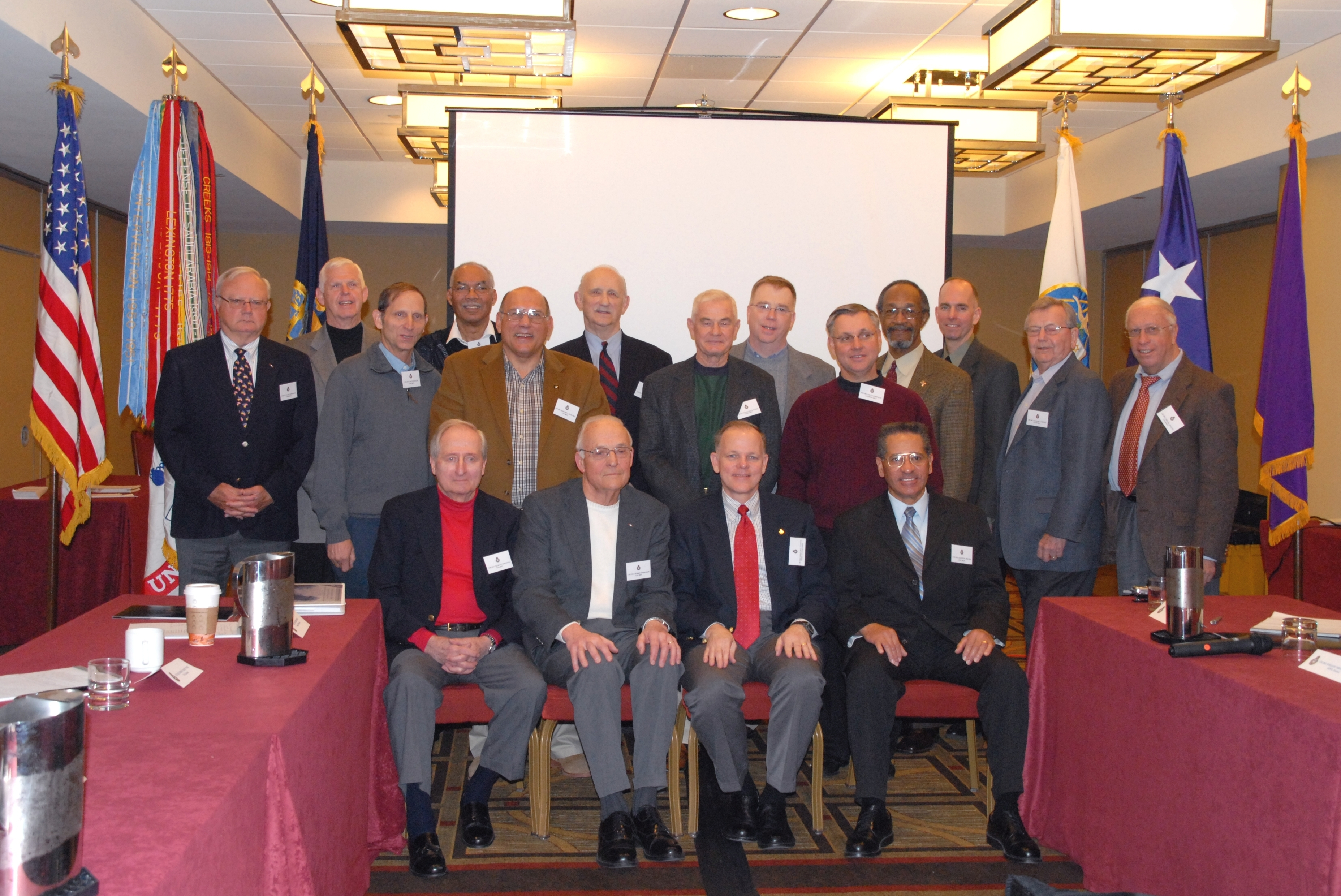 Description from Army website: The Army's current and former top chaplains met in Arlington Feb. 15 to discuss lessons learned and the challenges facing today's chaplains. Seated (Left to Right): Retired Maj. Gen. Kermit Johnson, Retired Maj. Gen. Norris Einertson, Chief of Chaplains Maj. Gen. Douglas Carver, Retired Maj. Gen. David Hicks. Standing (Left to Right): Retired Brig. Gen. Wayne Hoffmann, USAR, Retired Maj. Gen. Gaylord T. Gunhus, Retired Brig. Gen. David Zalis, USAR, Retired Brig. Gen. Victor Langford, III, USARNG, Retired Brig. Gen. Jerome A. Haberek, Retired Brig. Gen. James Hutchens, USARNG, Retired Brig. Gen. George D. Fields, USAR, Deputy Chief of Chaplains Brig. Gen. Donald L. Rutherford, Retired Brig. Gen. Dean Johnson, USARNG, Retired Maj. Gen. Matthew A. Zimmerman, Retired Brig. Gen. Bryan Hult, USARG, Retired Brig. Gen. William Brock Watson, USARNG, Retired Brig. Gen. Israel Drazin, USAR.